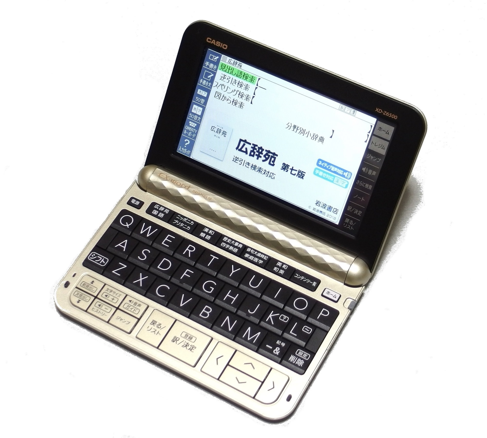 EX-word XD-Z6500, a Japanese IC dictionary, manufactured by Casio Computer in 2018.